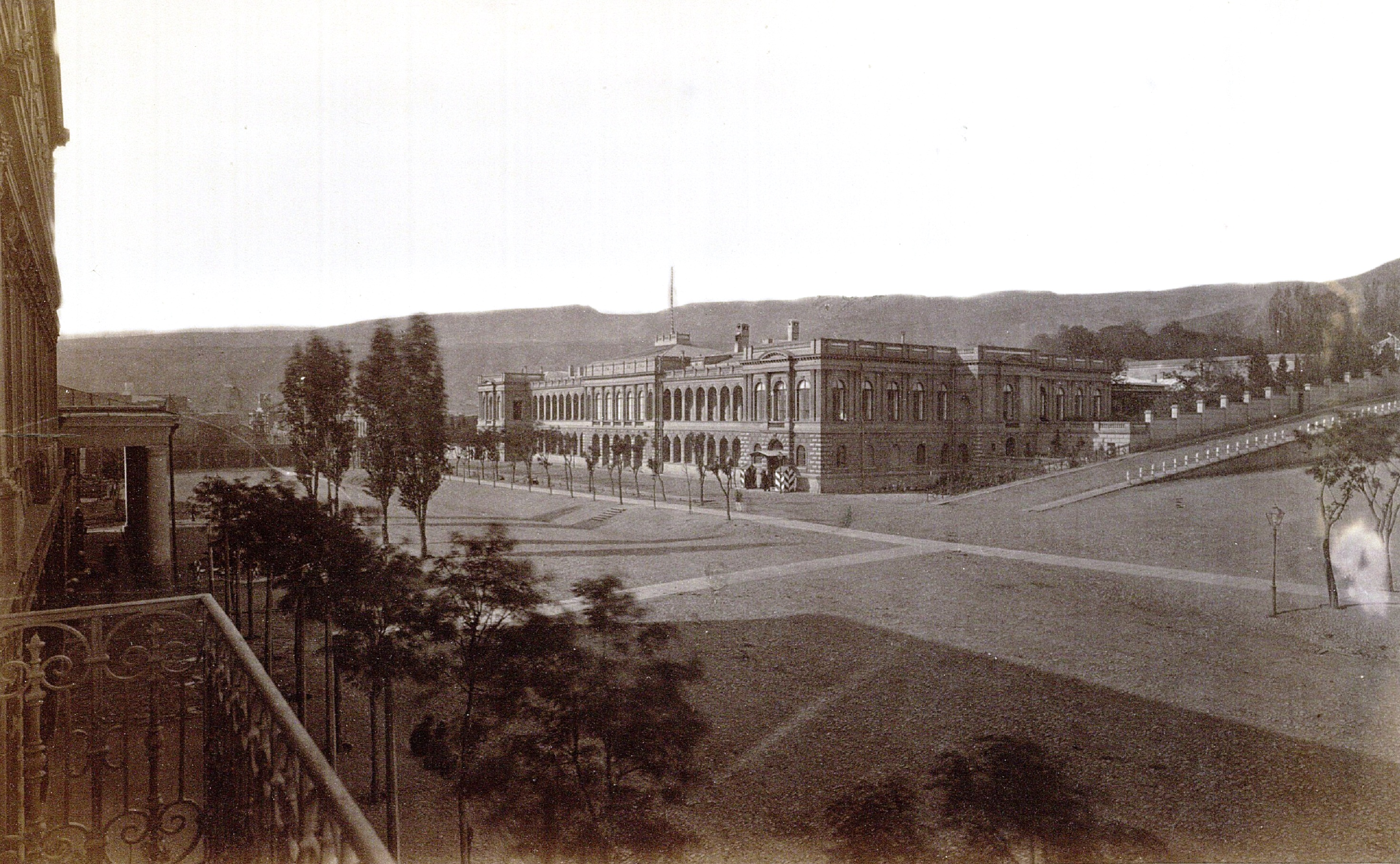 Palace of Caucasian Viceroy, Tiflis